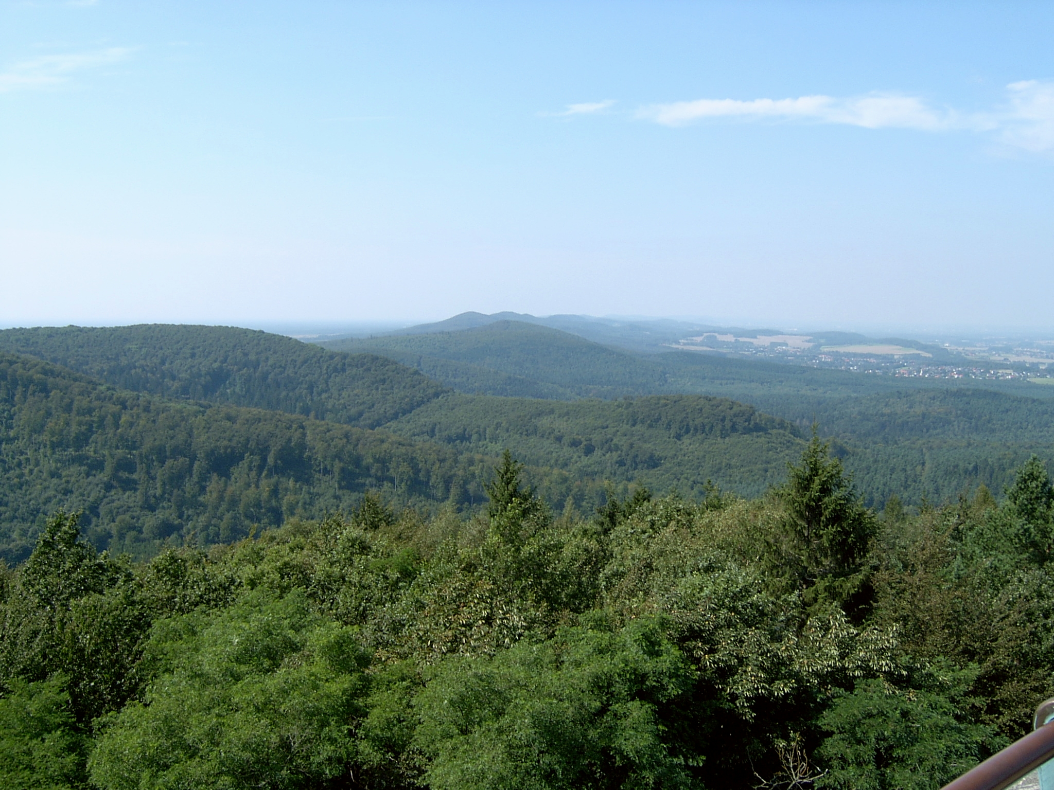 View over the Teutoburg Forest